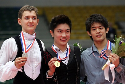 The men's podium at the 2013 Cup of China. From left: Maxim Kovtun (2nd), Yan Han (1st), Takahiko Kozuka (3rd).